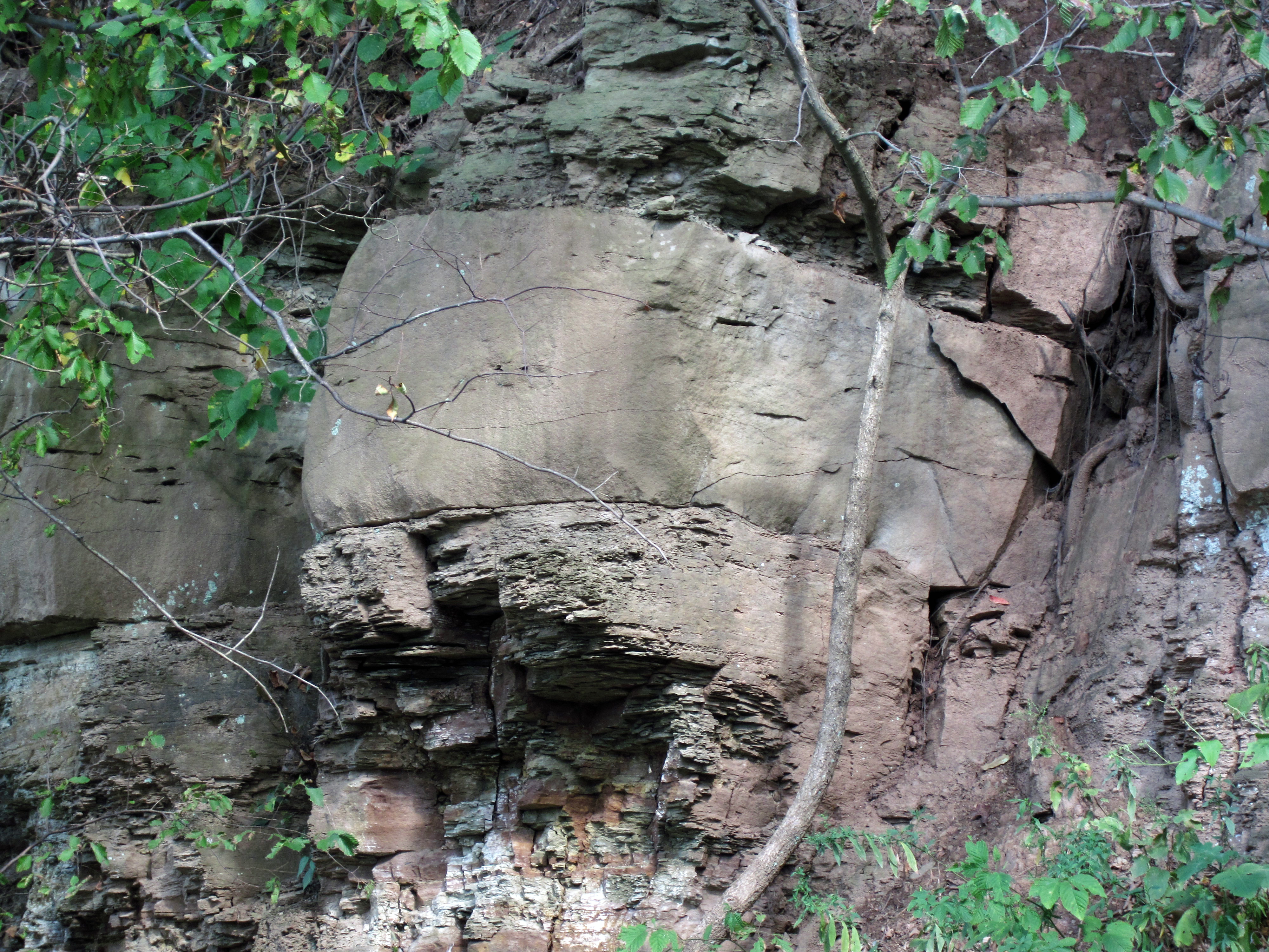 Sandstone in the Permian of Ohio, USA. The Upper Pennsylvanian to Lower Permian Dunkard Group of Ohio contains the youngest bedrock in the entire state. The unit consists of two stratigraphic formations: the Washington Formation (below) and the Greene Formation (above). This is a cyclothemic, nonmarine succession principally composed of shales, sandstones, lacustrine limestones, and thin coal beds. This photo shows a sandstone interval in the Greene Formation. It occurs about 5 to 6 feet above the Nineveh Limestone. The massive-weathering unit is a calcareous, micaceous, quartzose sandstone about 6 feet thick. Below it is about 5.5 feet of thin-bedded siltstones and argillaceous sandstones. Stratigraphy: sandstone interval at top of unit GR16 of Cross et al. (1950), Greene Formation, upper Dunkard Group, Lower Permian Locality: Clark Hill section - roadcut on the southeastern side of Long Ridge Road, south of Oppossum Creek, south-southeast of the town of Clarington, southeastern Alum Township, eastern Monroe County, eastern Ohio, USA (GPS: 39° 43.676’ North latitude, 80° 51.018’ West longitude) Reference cited: Cross et al. (1950) - Field guide for the special field conference on the stratigraphy, sedimentation and nomenclature of the Upper Pennsylvanian and Lower Permian strata (Monongahela, Washington and Greene Series) in the northern portion of the Dunkard Basin of Ohio, West Virginia and Pennsylvania. 107 pp.